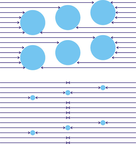 Gravitational Shielding